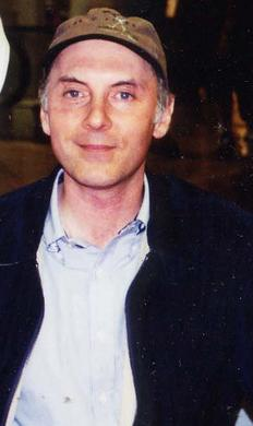 Dan Castellaneta at a book signing in 2002